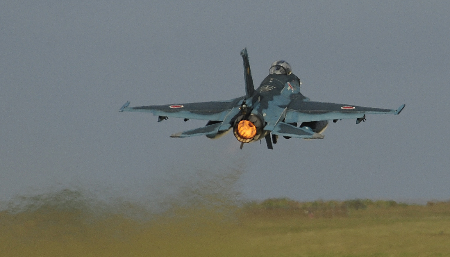 F-2A (519) of 6 Sqn takes off from Andersen Air Force Base during Cope North, Feb. 12, 2010. (U.S. Air Force photo by Staff Sgt. Andy M. Kin/Released) Nikon D3